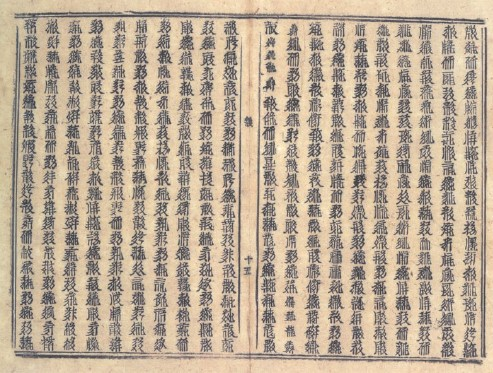 Folio from the Tangut Tantric Buddhist text Auspicious Tantra of All-Reaching Union that was discovered in the ruins of Baisigou Square Pagoda in 1991.